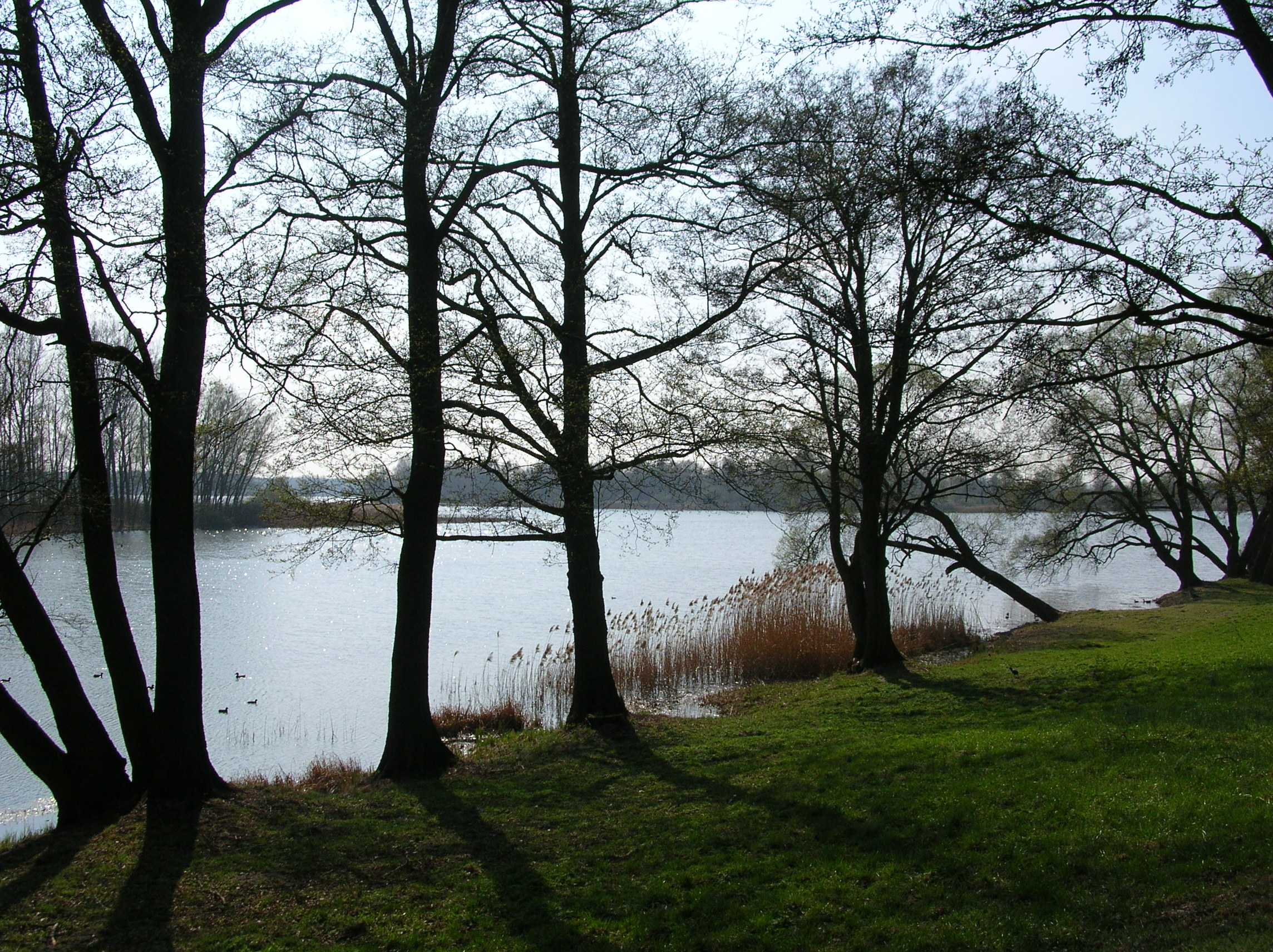 Rogowskie Lake